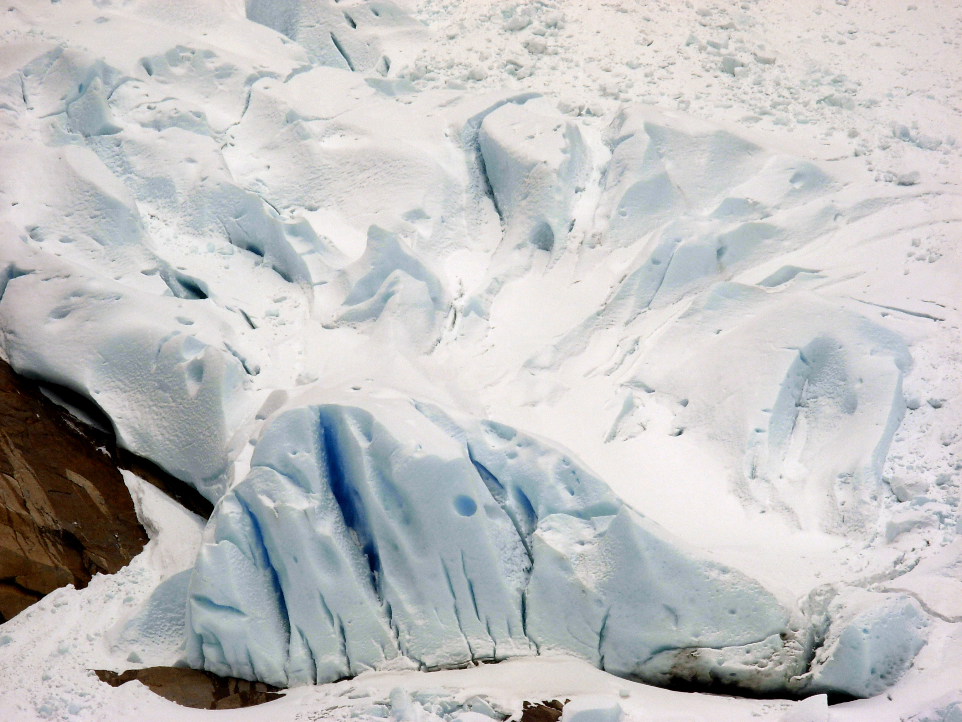 Blue ice of glacier